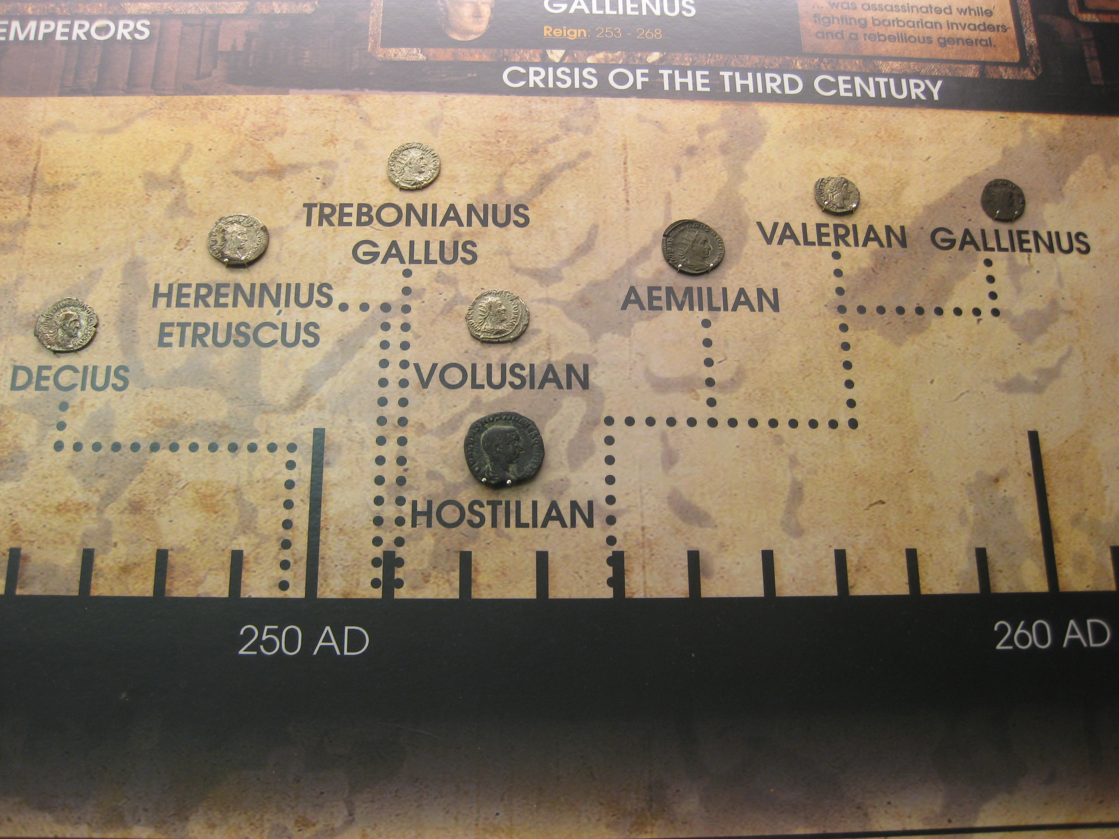 Close up of part of the Roman Coin Time line on display at the Museum of World Treasures located in Wichita, KS.